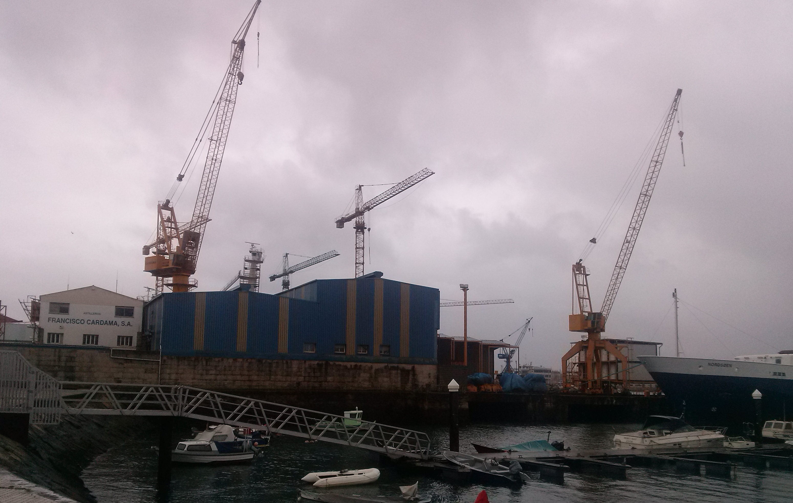 Astaleiro cardama